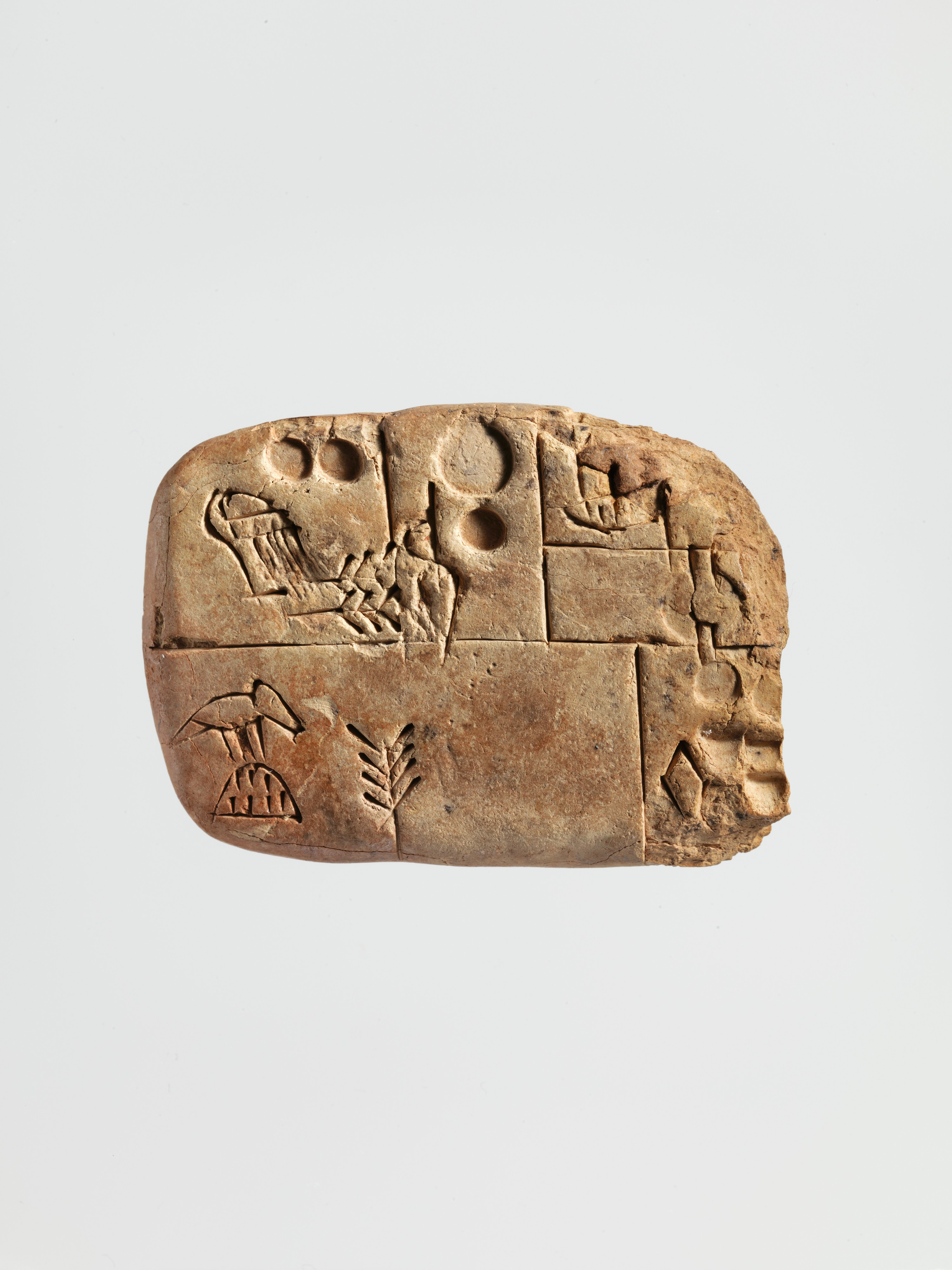 Sumerian; Cuneiform tablet; Clay-Tablets-Inscribed